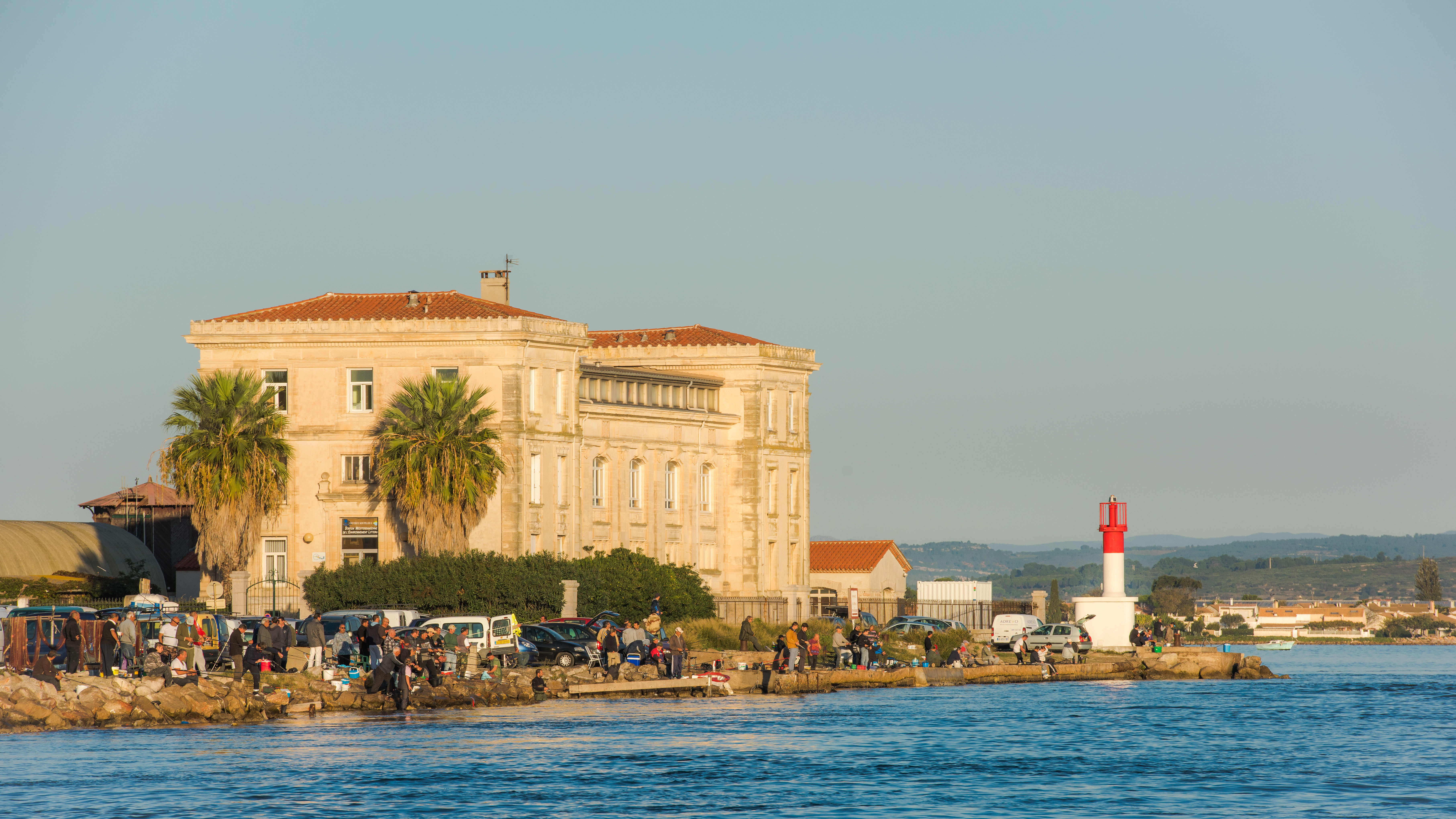 Fishing of Gilt-head bream (Sparus aurata) in the entrance of the Etang de Thau. Fish sensitive to the change in temperature, the Gilt-head bream, having spent the summer in the pond, leaves massively it at the beginning of the autumn to go on the open sea. For the biggest happiness of the fishers which wait for its in this strategic place which is the entry of the Canal of Sète, the inescapable passage of fishes. The building in background is a former biological station built in 1930 and which belongs now to the Ministry of Education.Sète, Hérault, France.